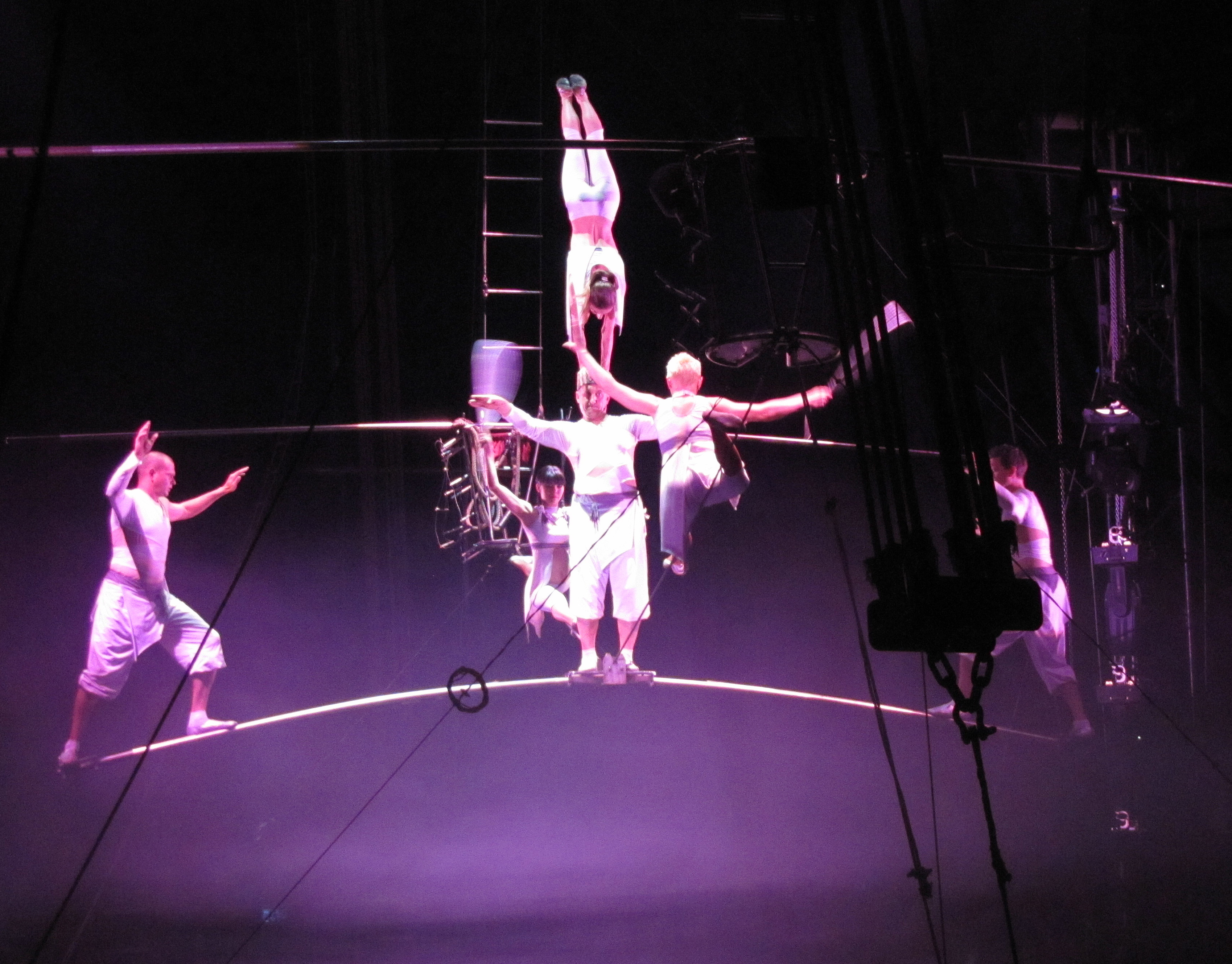 Tightrope walking, circus "Flic Flac", 2010 in Frankfurt am Main, Germany